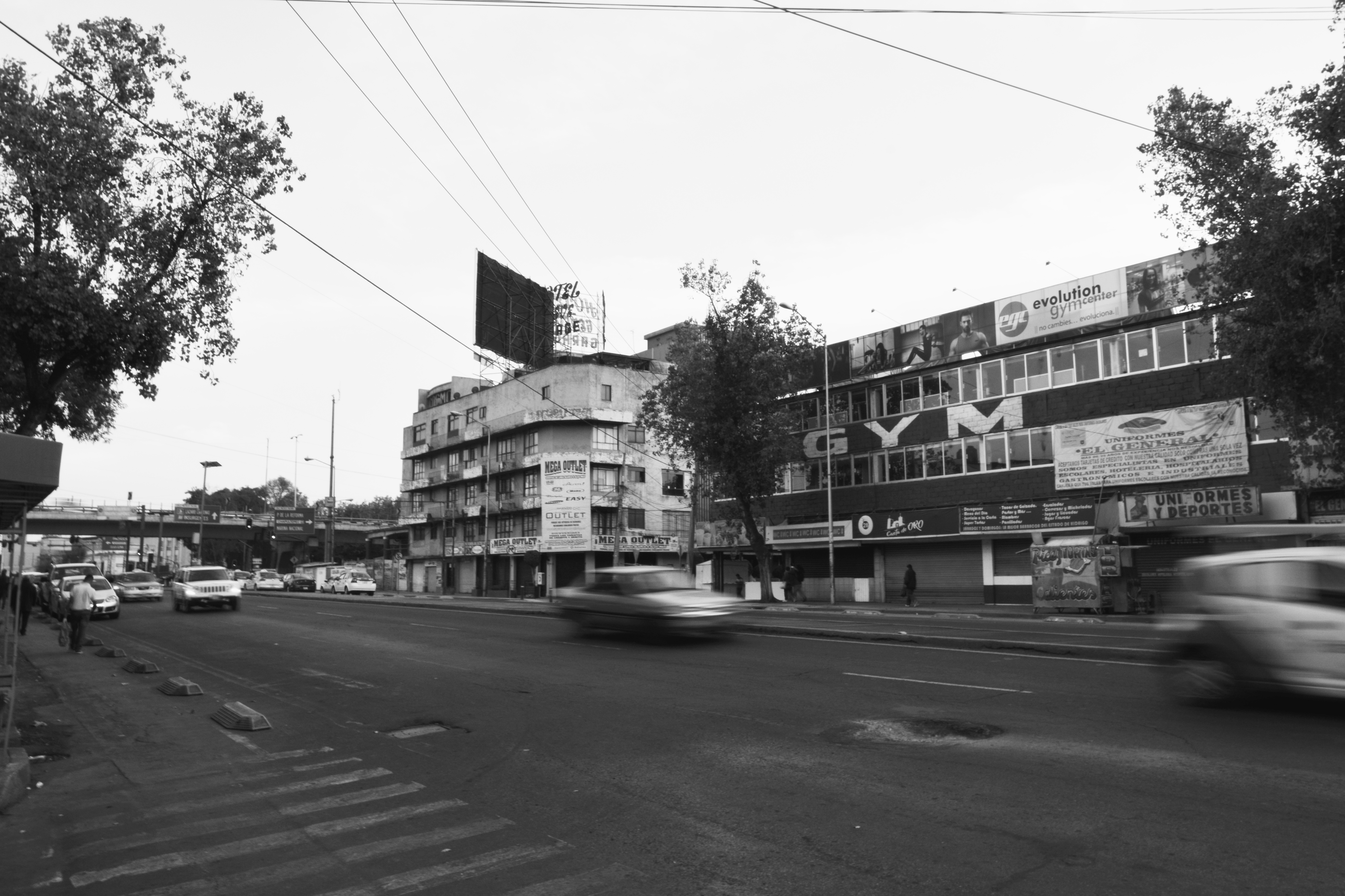 Alfonso Cuaron's "Roma" filming locations in Mexico City. BW version.